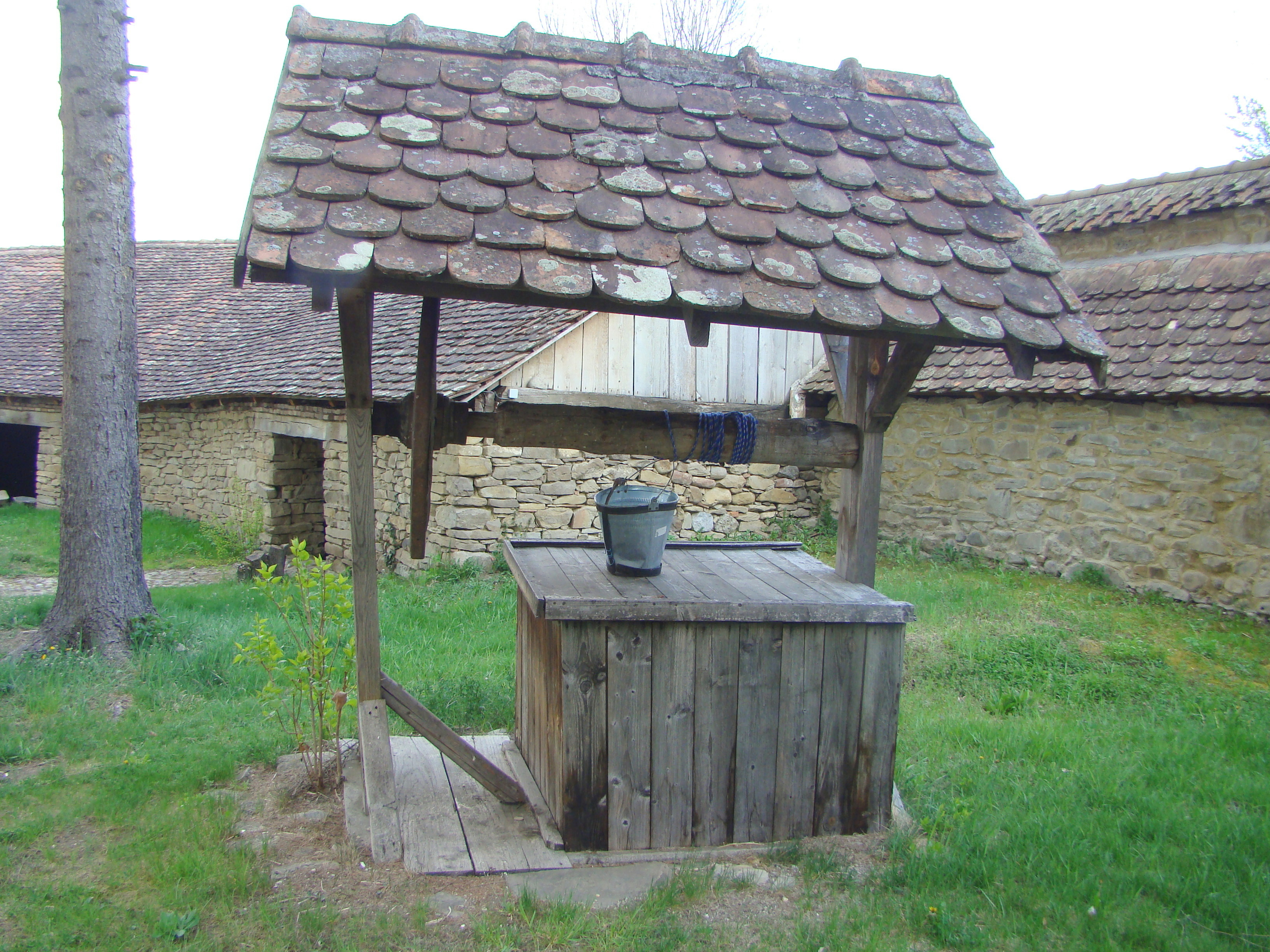 Fortified church in Criț, Brașov county, Romania